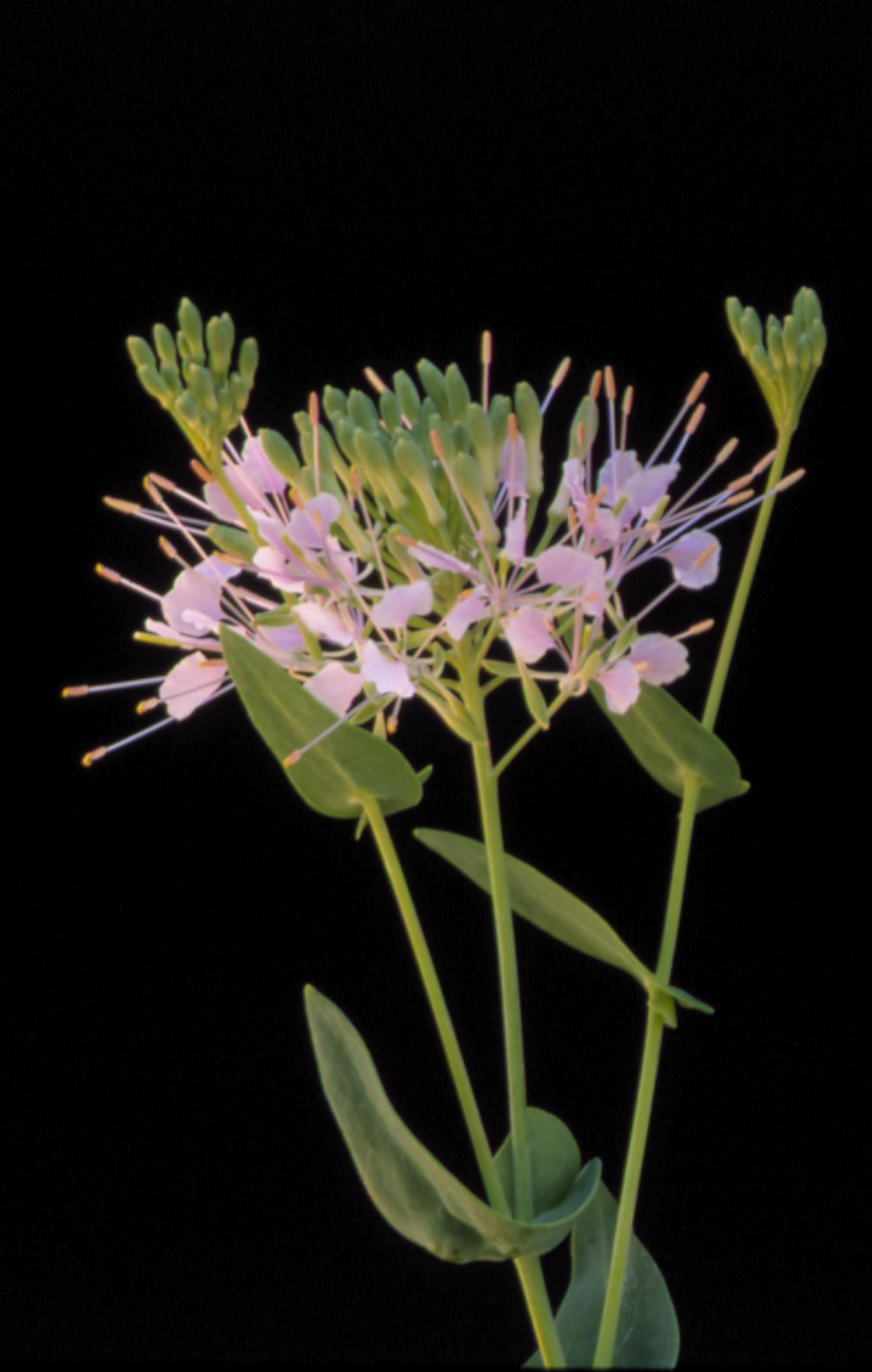 Warea amplexifolia USFWS photo